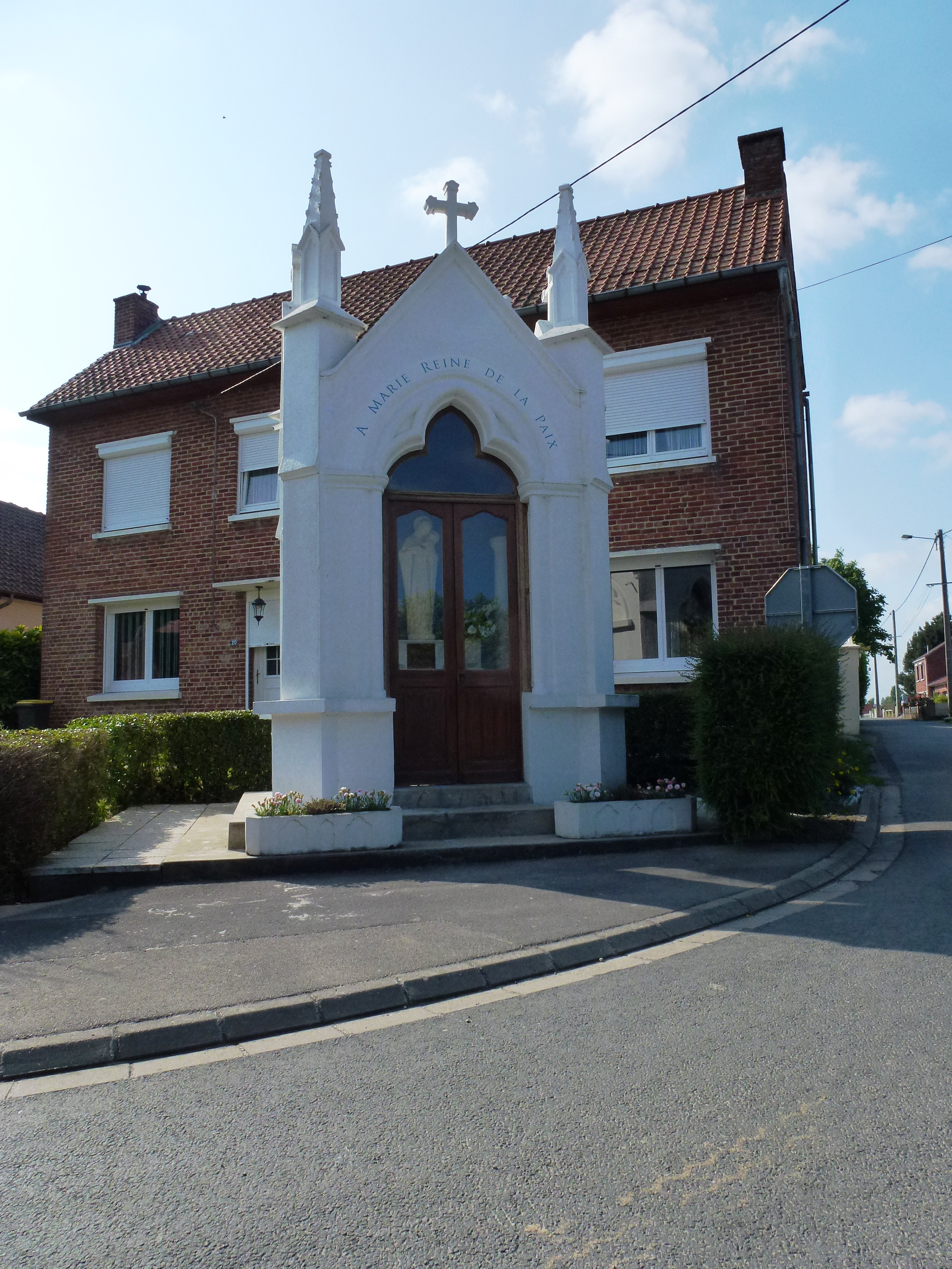 Norrent-Fontes (Pas-de-Calais, Fr) Chapelle Marie Reine de la Paix